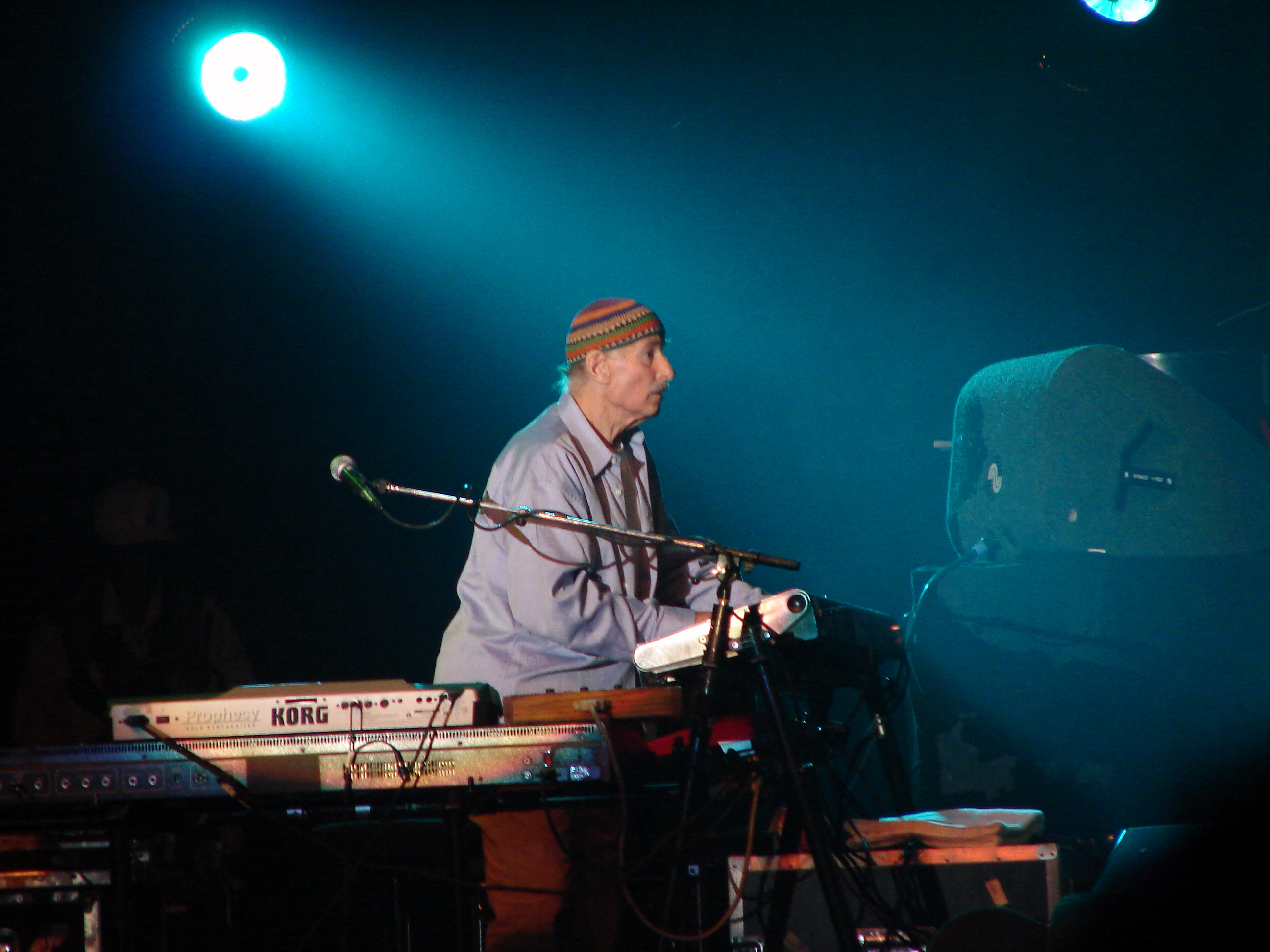 Joe Zawinul at the North Sea Jazz Festival 2007 playing his keyboards